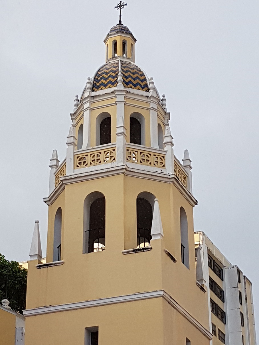 Steeple